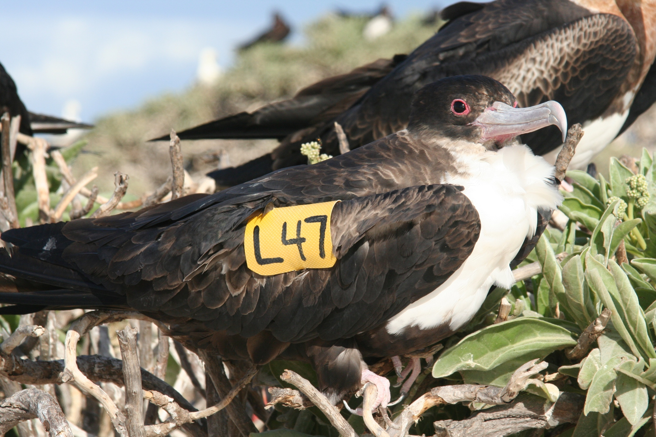 Female Great Frigatebird Fregata minor with wing tag. Taken on East Island, French Frigate Shoals